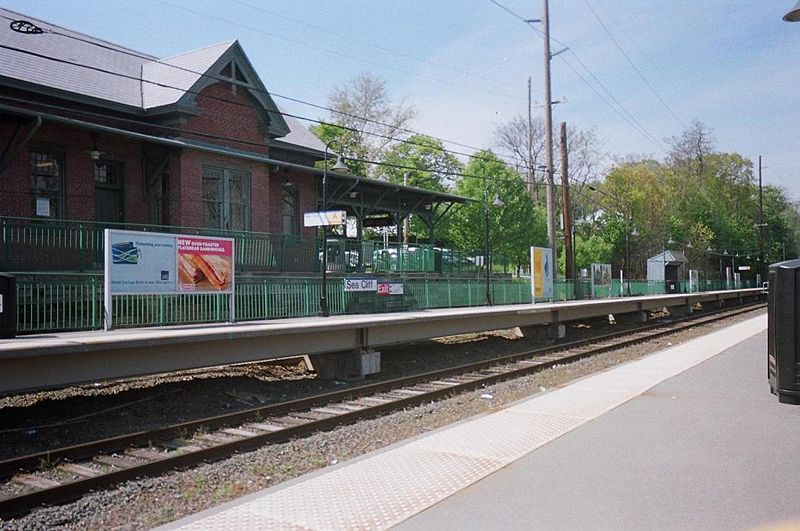 The historic Sea Cliff (LIRR station) on Sea Cliff Avenue in the City of Glen Cove, New York. Originally uploaded on Wikipedia as Image:Sea Cliff LIRR Station-2.JPG on May 13, 2008.